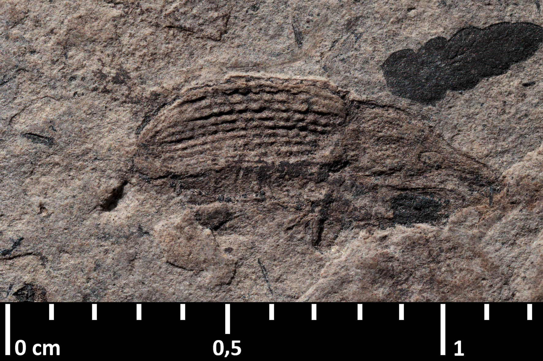 The Centrinus longipes holotype part specimen with direct lighting. Thanetian, Paleocene; Menat Formation, Puy-de-Dôme, France Muséum national d'Histoire naturelle specimen MNHN.F.A38843